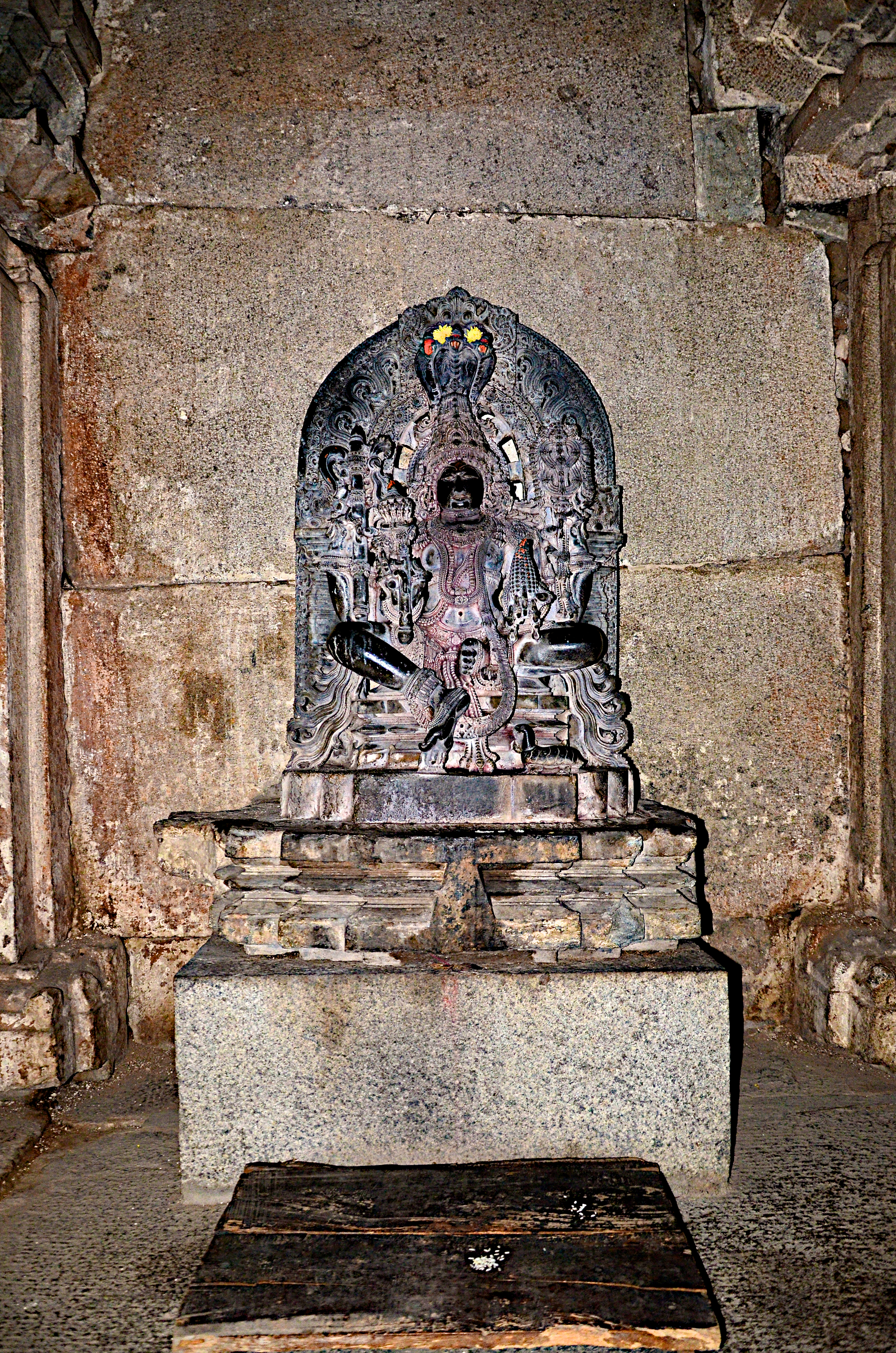 Intricately carved idol of Yaksha Dharanendra.